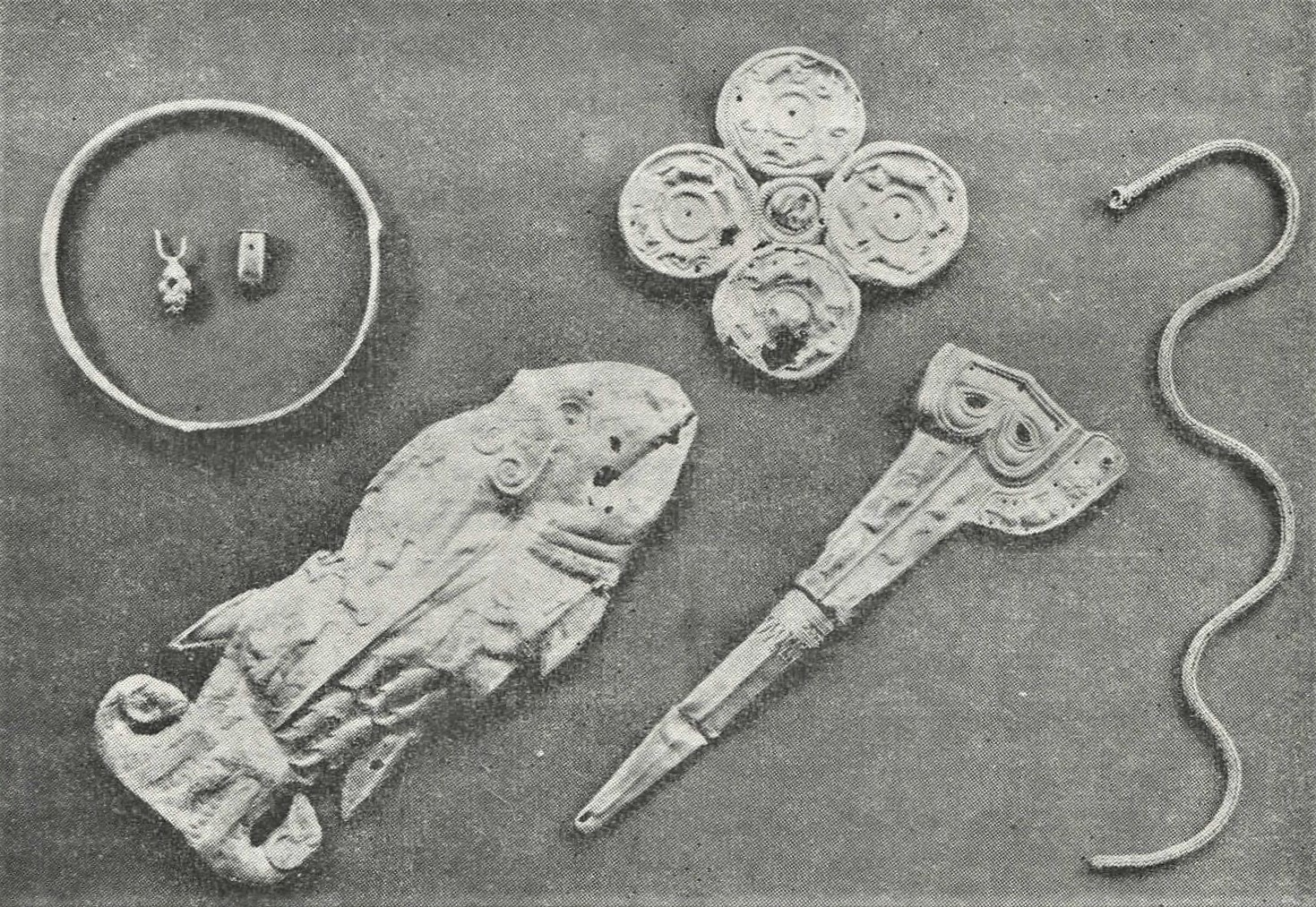 Der Skythische Goldfund von Vettersfelde-Witaszkowo